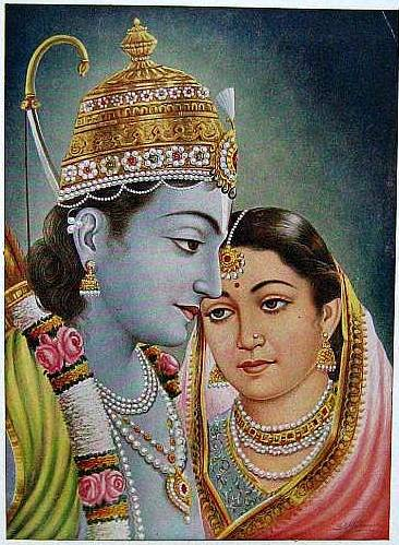 Ram and Sita as a couple (bazaar art, 1950's) Source: ebay, Nov. 2006